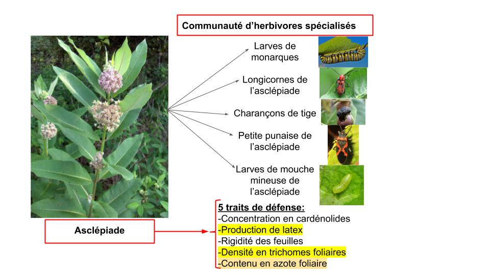 Simple representation of herbivory - plant relationship in common milkweed. All images are royalty-free. Figure was created by me